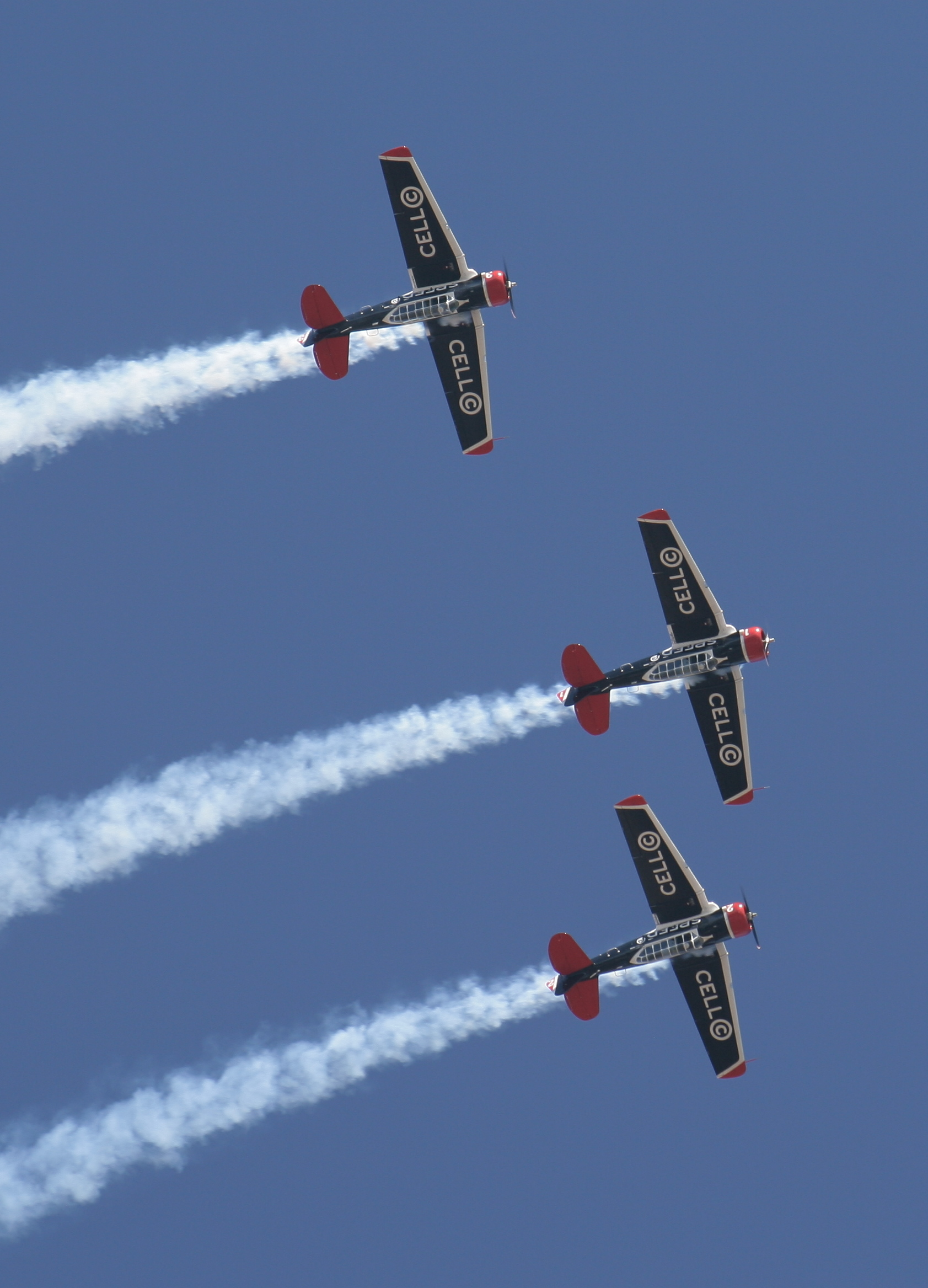 Formation of Harvards (North American T-6 Texan) at the Grand Rand Airshow, Rand Airport, South Africa